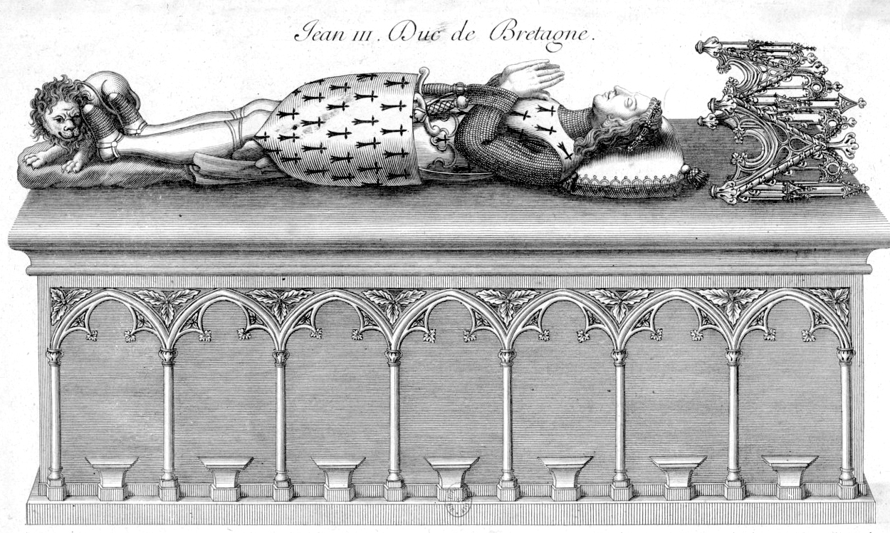 Jean III duc de Bretagne